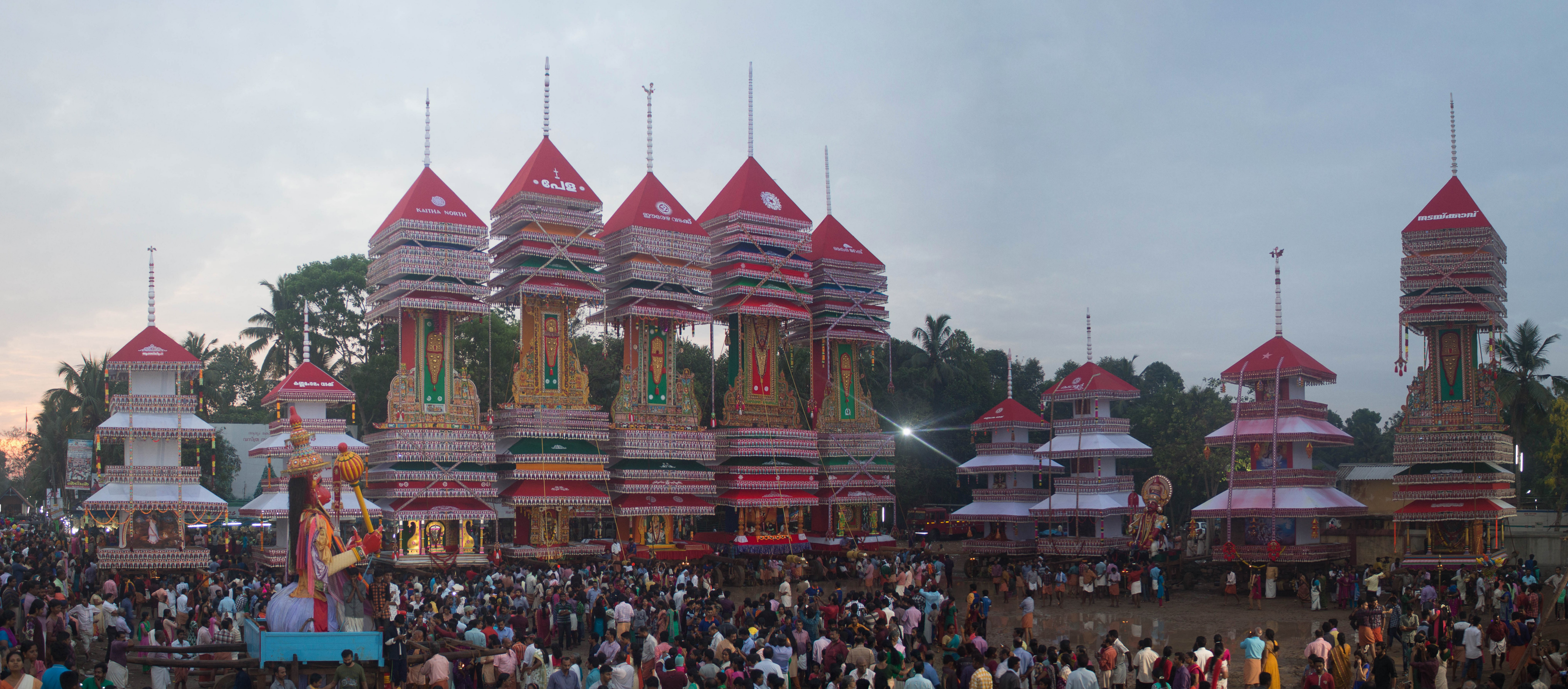 Chettikulangara Kettukazcha panorama view